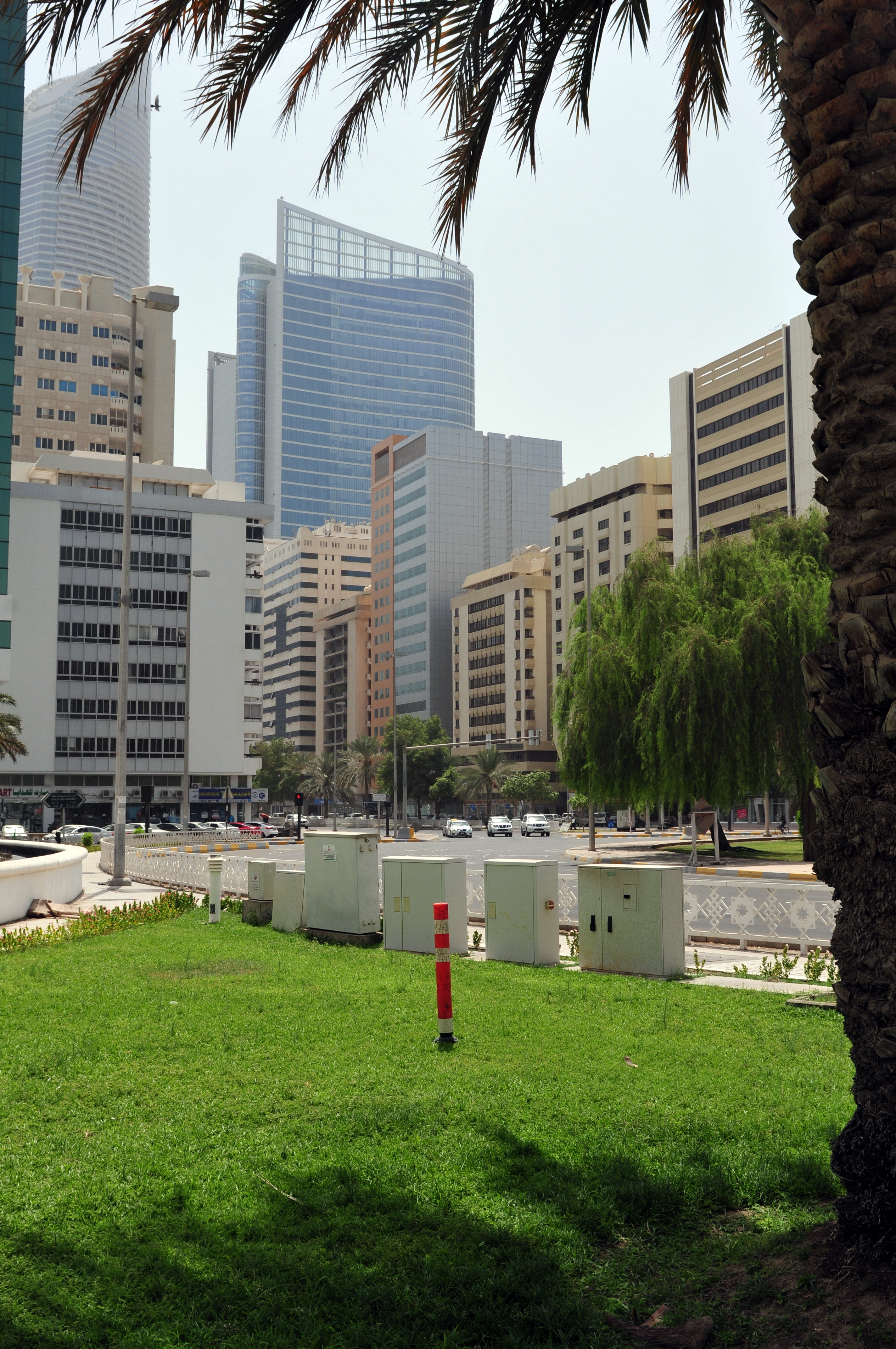 Abu Dhabi, center of town, View to Al Istiqlal Street near Airport Road